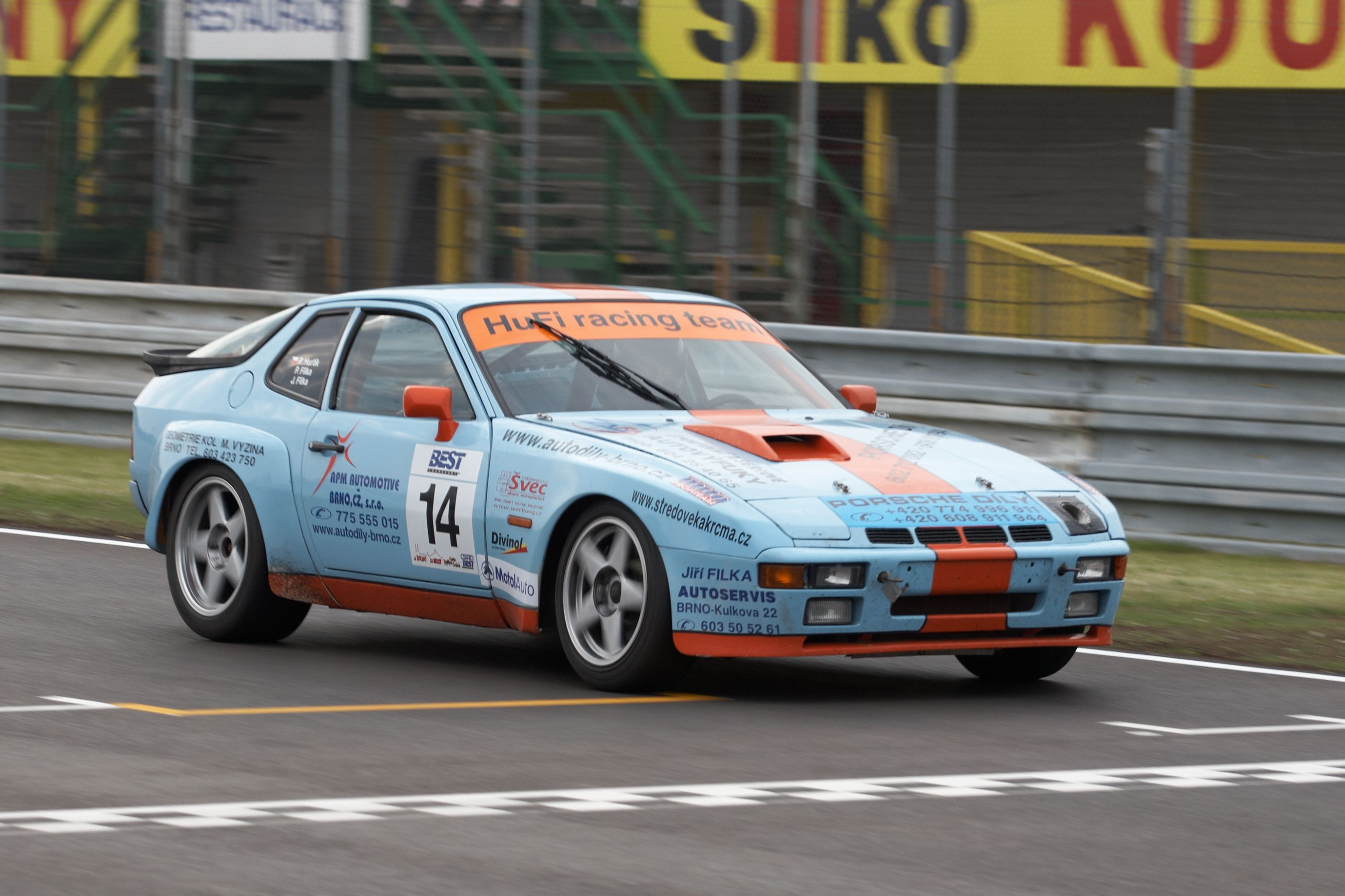 Porsche 924 GTS during 12h Le Brno race